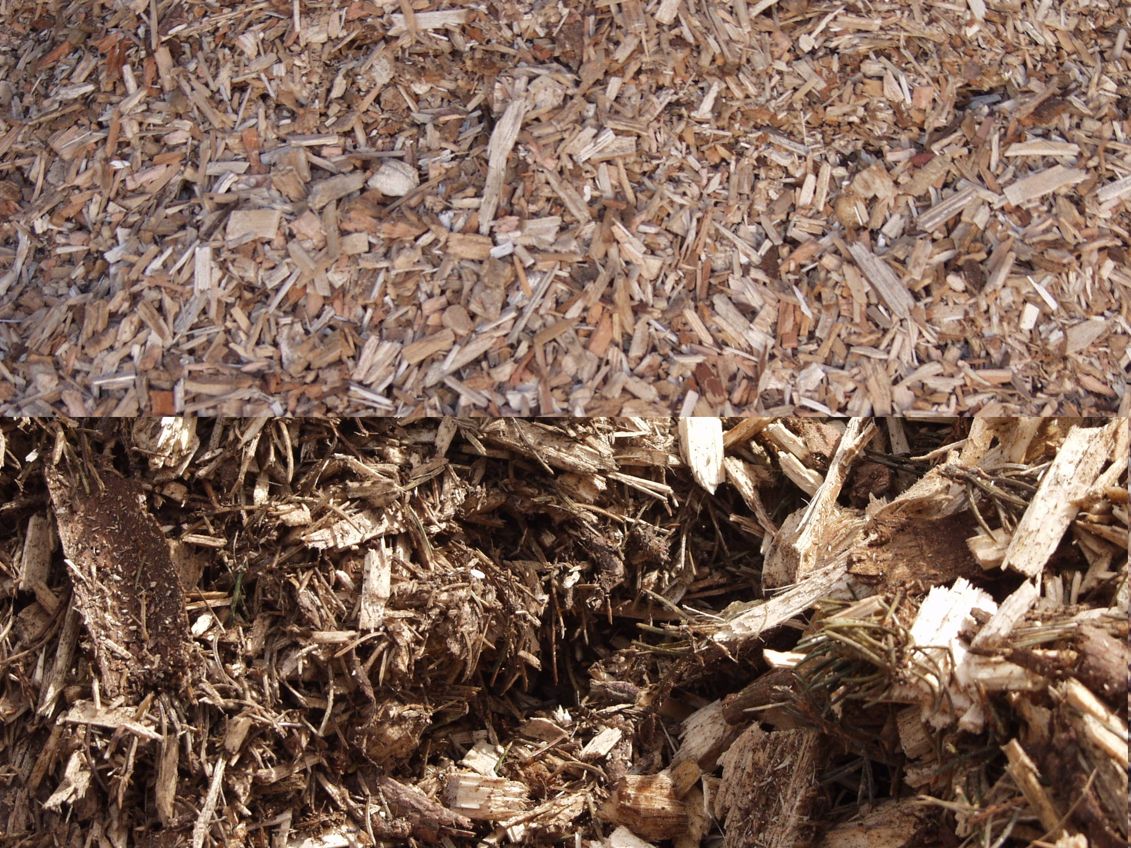 different grades of wood chips